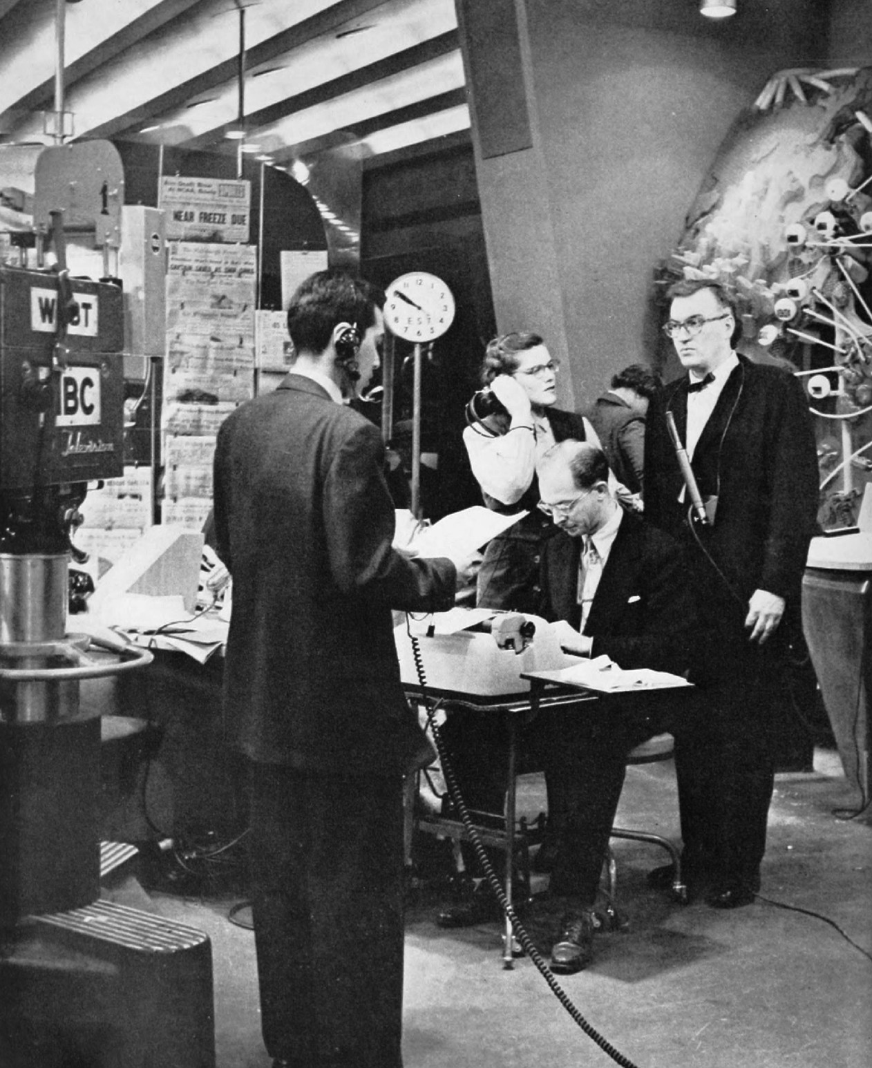 Photo of Dave Garroway on the Today show set in 1952.